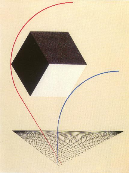 A "Proun" work by Russian suprematist artist, El Lissitzky. Ink and watercolor collage, untitled